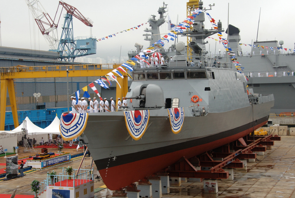 Yoon Young Ha Class Patrol Boat.